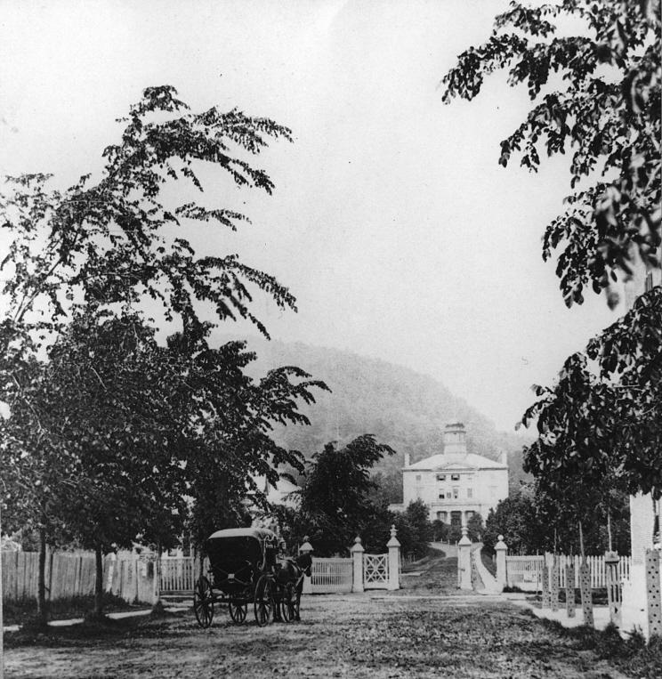 McGill College Avenue in Montreal, 1869, with hose drawn carriage approaching the gates of McGill College. Mount Royal visible at rear.